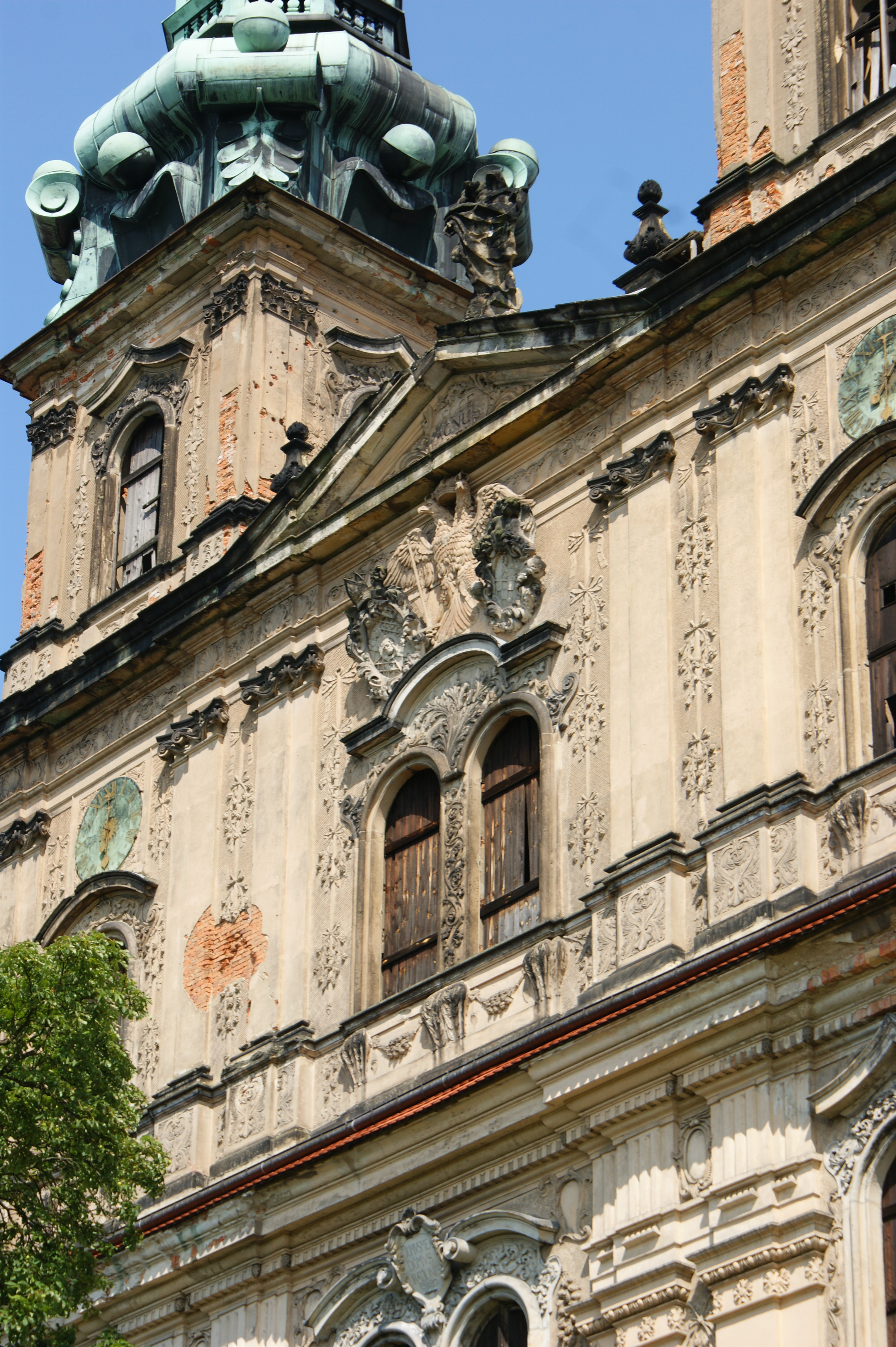 St Mary im Lubiaz detal.